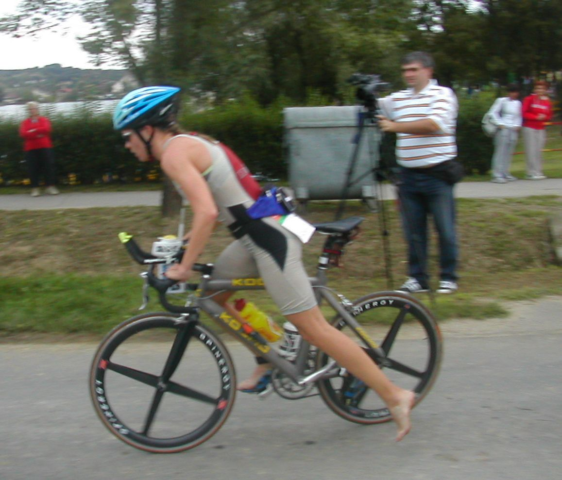 Four-time champion of long distance triathlon, Zsuzsanna Harsányi begins her cycling towards the 5th victory.